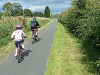 Ribble Link cyclists